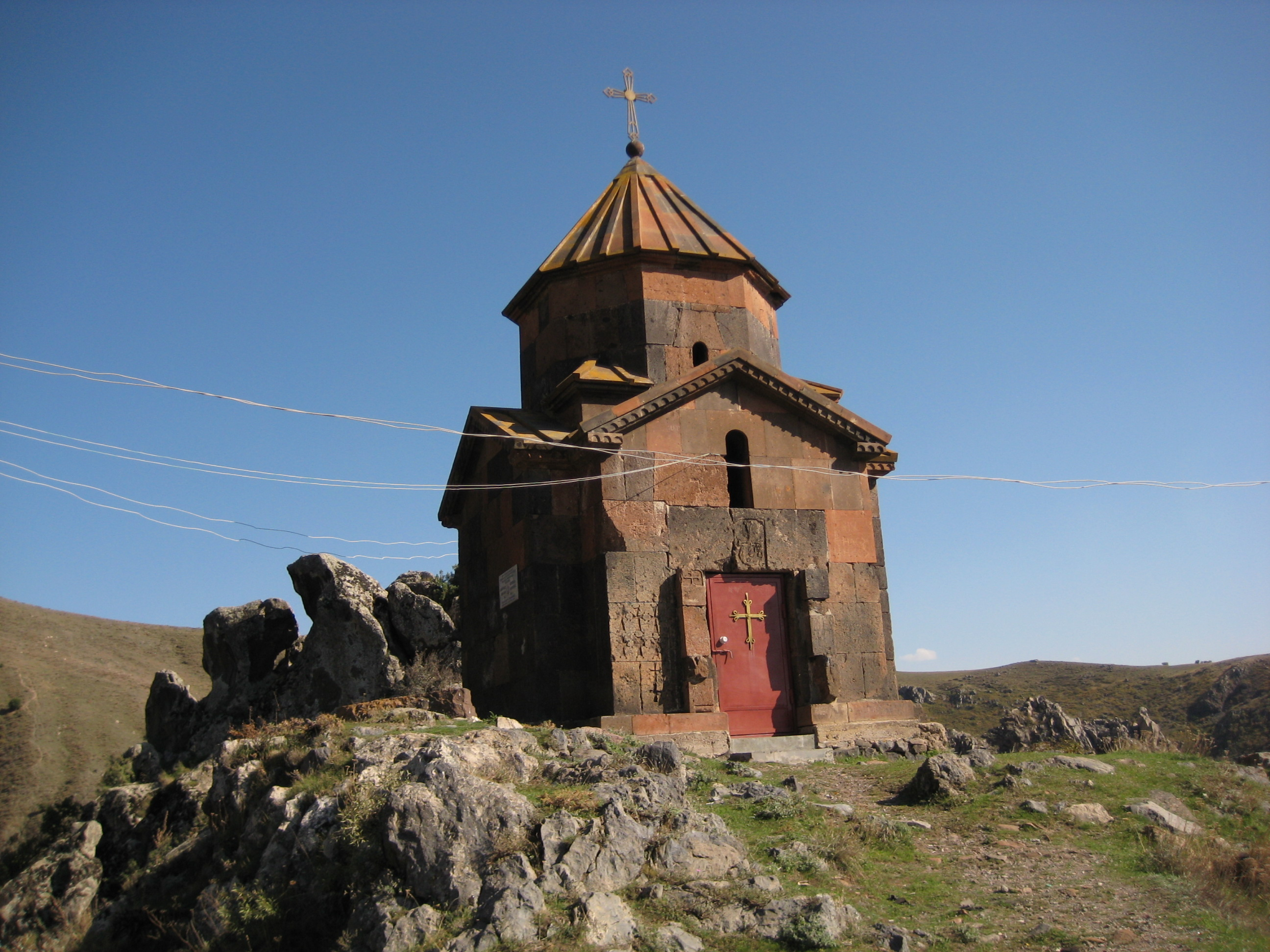 Saint Sargis Church of Bjni atop a stone outcrop in the middle of the village (right of the mesa). 19/15